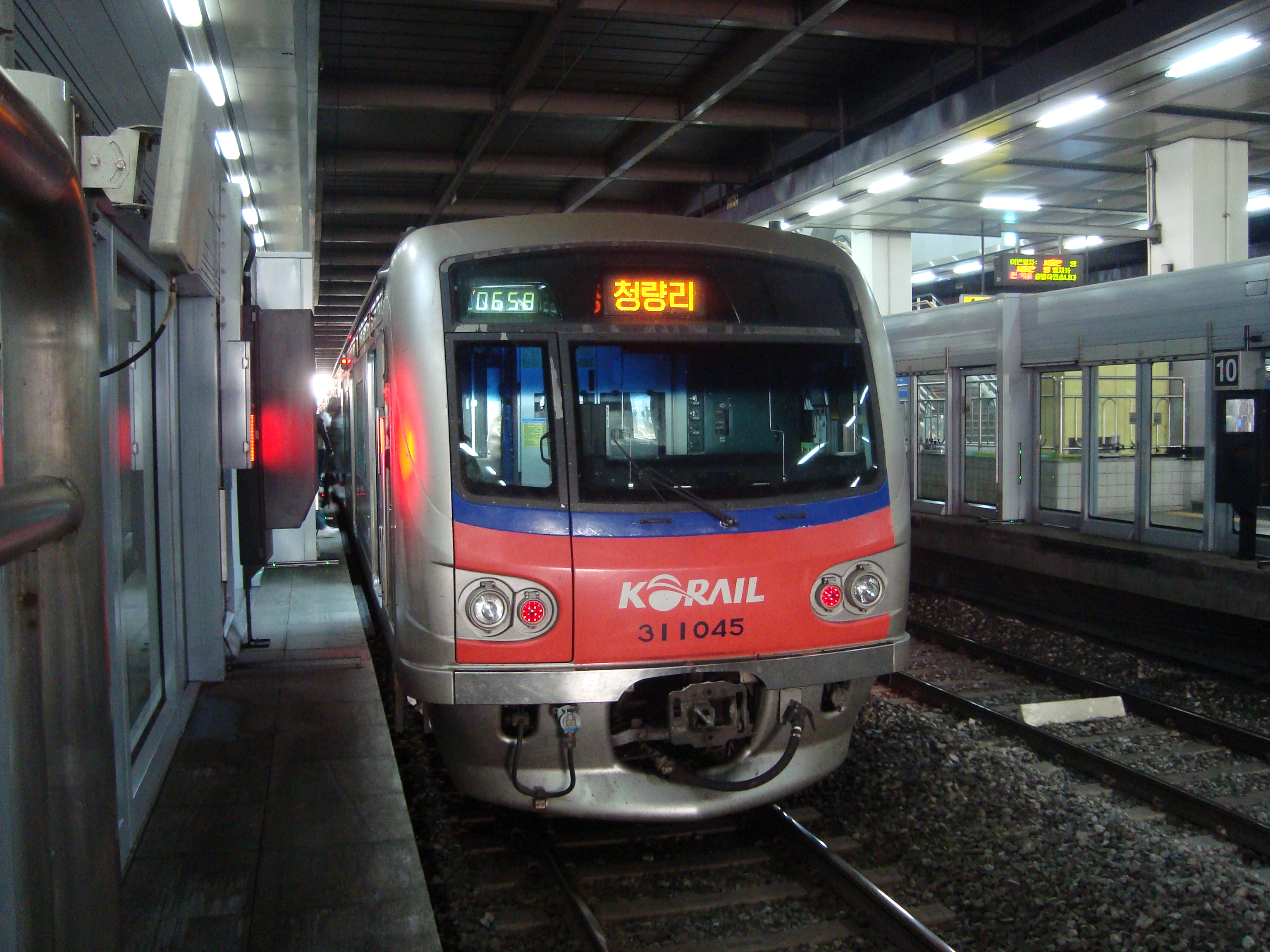 Cheongnyangni-bound Korail Class 311 (2nd generation - trainset 311x45) at Yongsan Station.